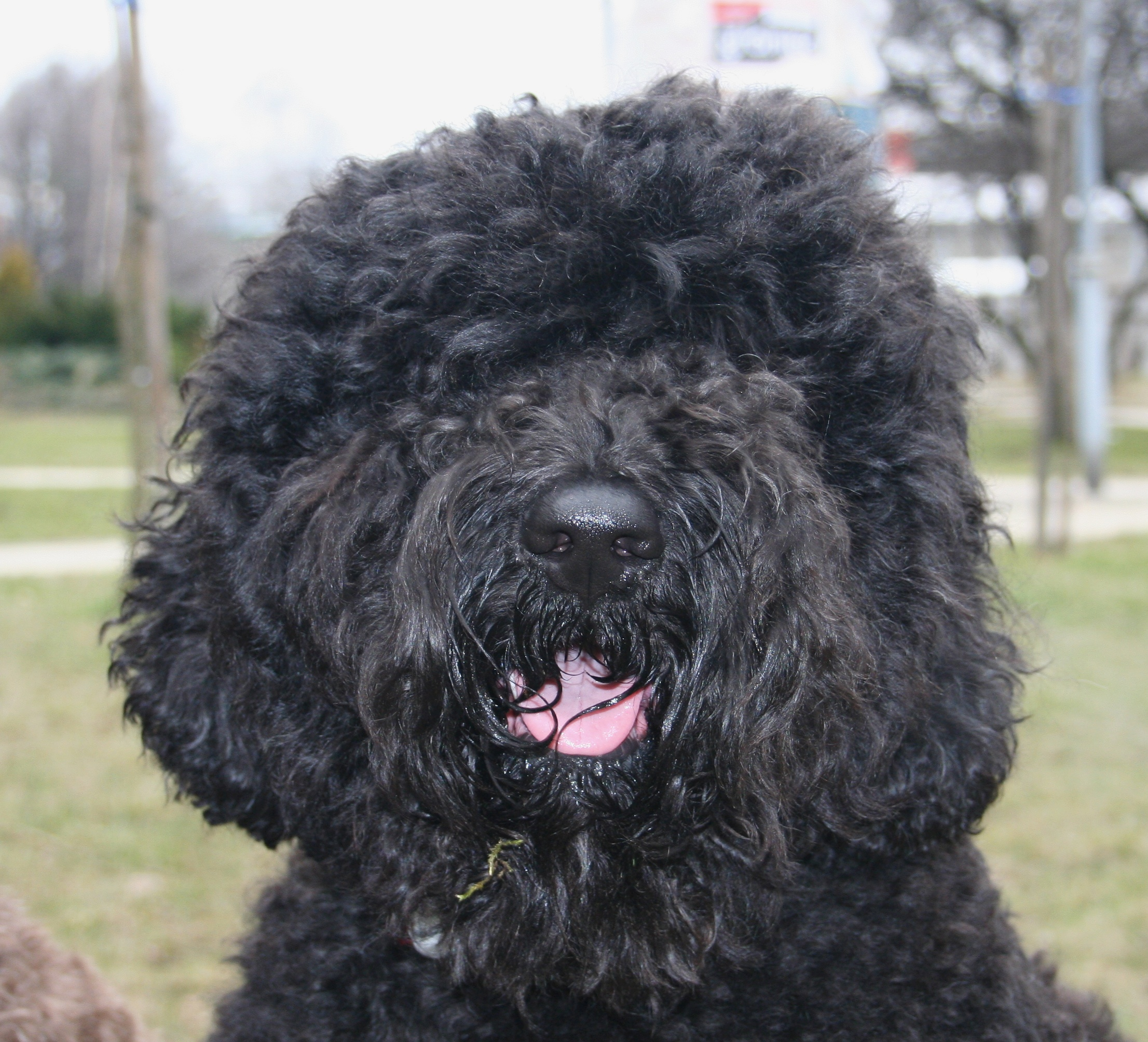 Barbet during the international dog show in Katowice - female from husbandry "Z Barbeciarskiej Chaty", the owner and breeder - Anna Stępińska, Poland.